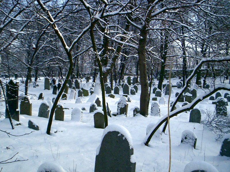 Jewish cemetery, Chrzanow, Poland. Photo taken by myself.